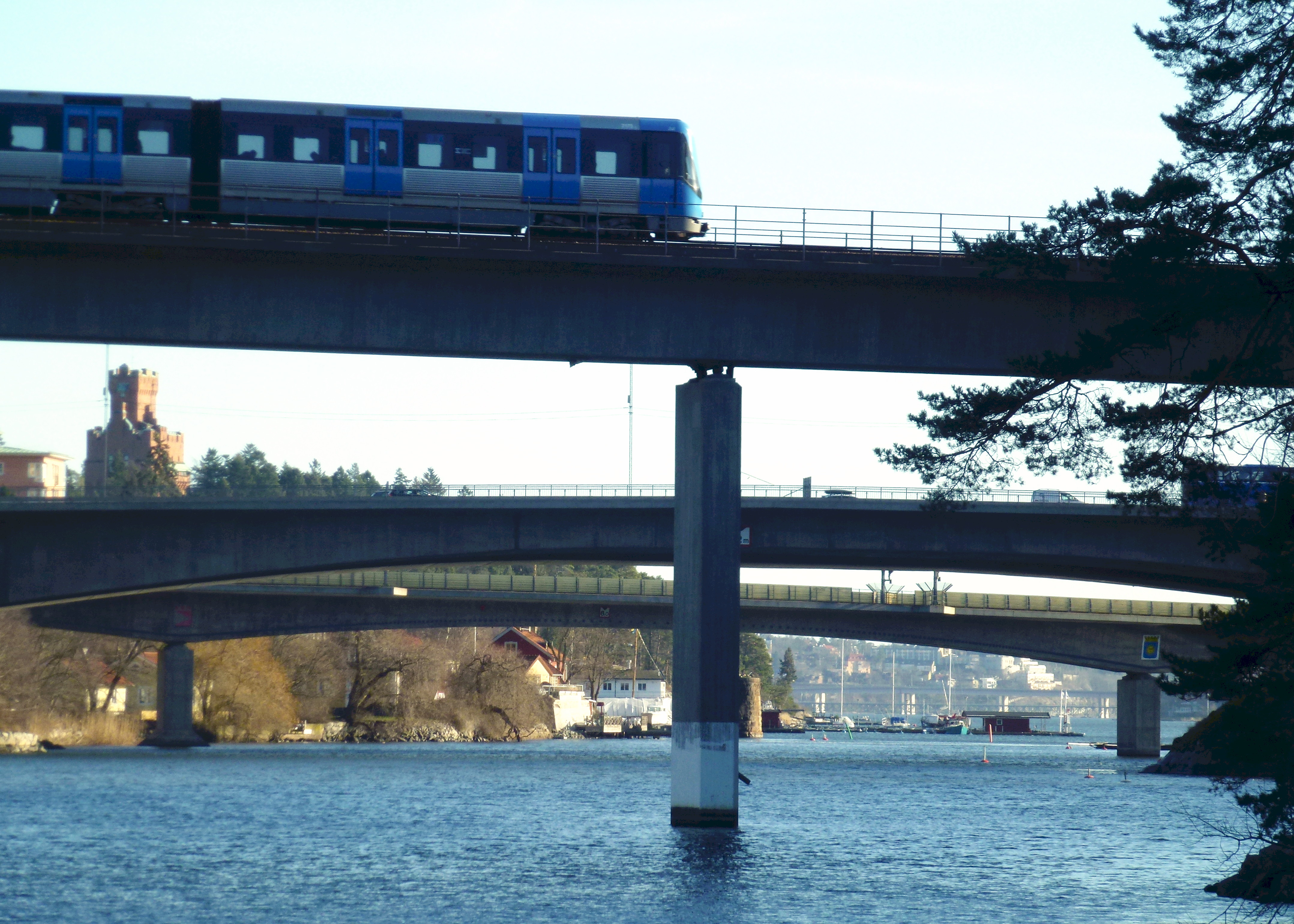 Bridges across the Stocksundet. The nearest is the metro bridge, with a train on it, followed by road bridge and then the Roslagsbanan bridge.